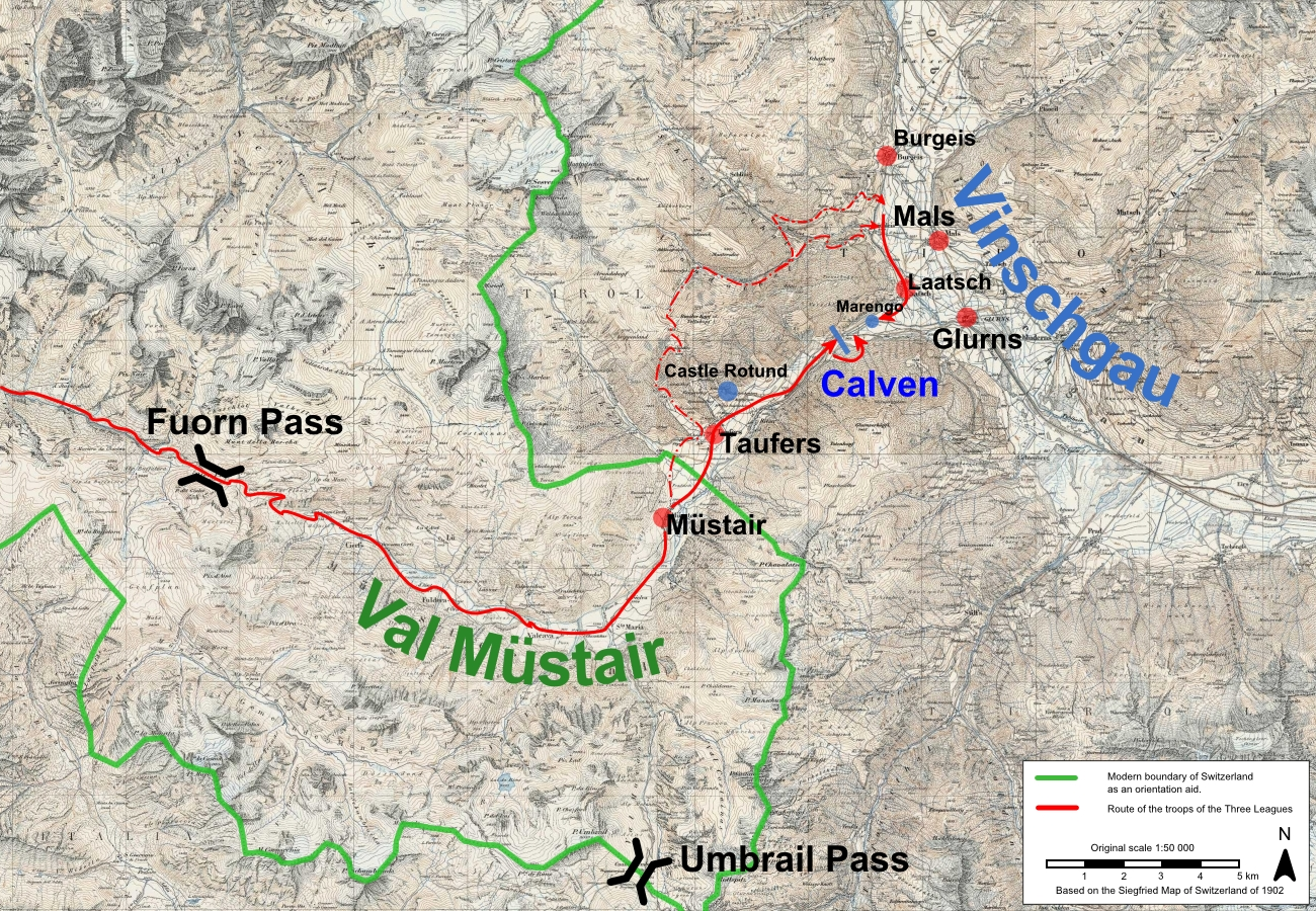 Map of the Battle of Calven in the Swabian War. Info on the route of the Swiss soldiers is from [1]; the map background itself is from the "Siegfried Map" of Switzerland, published in 1902. Composite image of four map sheets (425, 425bis, 429, 429bis).